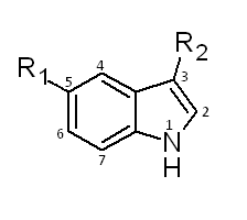 The indole structure of the triptan drugs